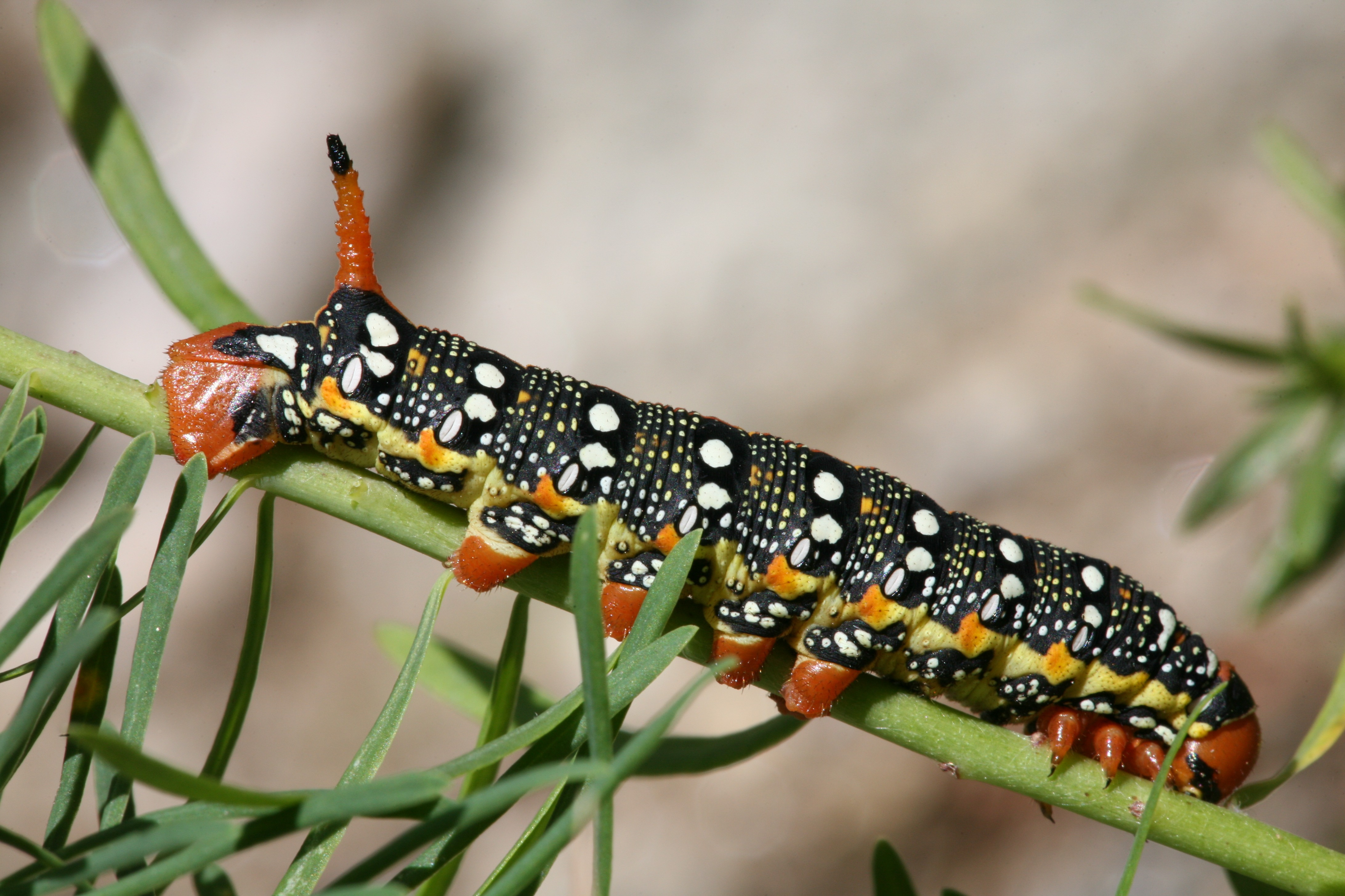 Caterpillar of the Spurge Hawk-moth, seen in Kriegtal near Binn, Valais, Switzerland at approx. 2000 m altitude